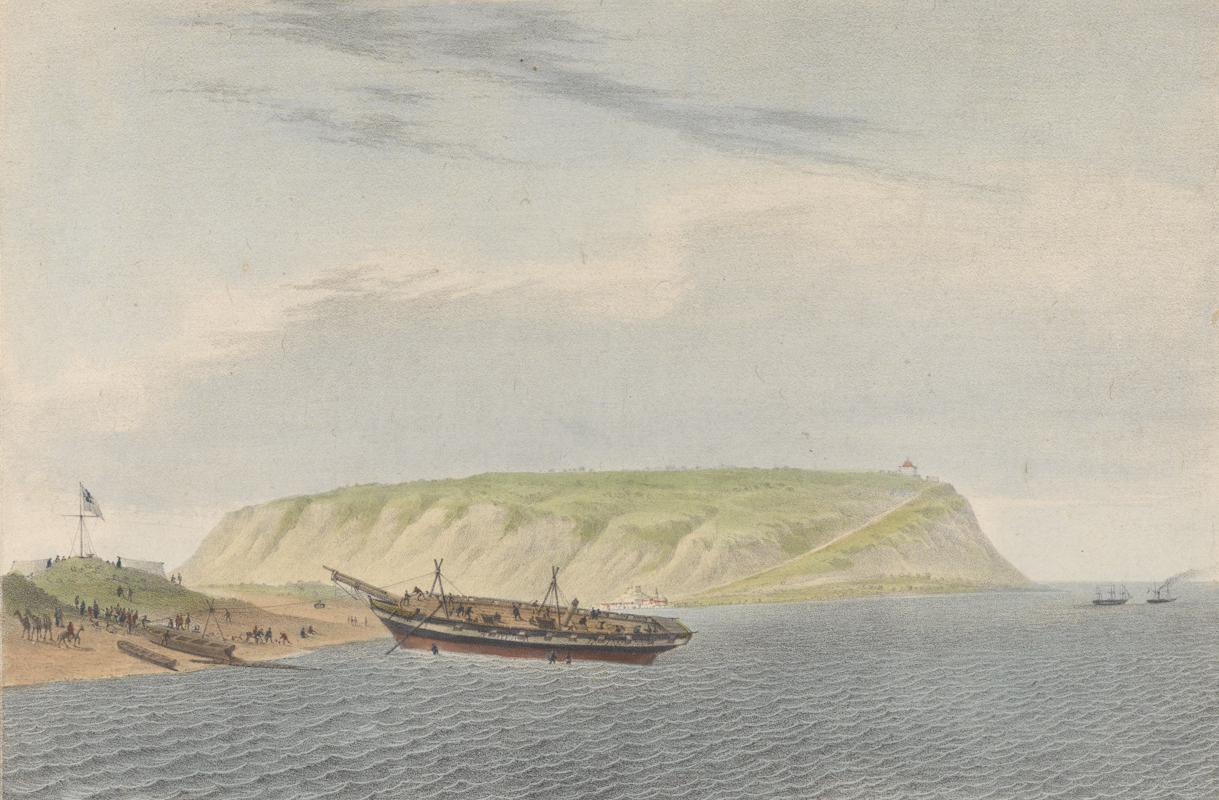 H.M.Brig Zebra Clearing Out 4th December 1840 Hand-coloured. H.M.Brig Zebra Clearing Out 4th December 1840